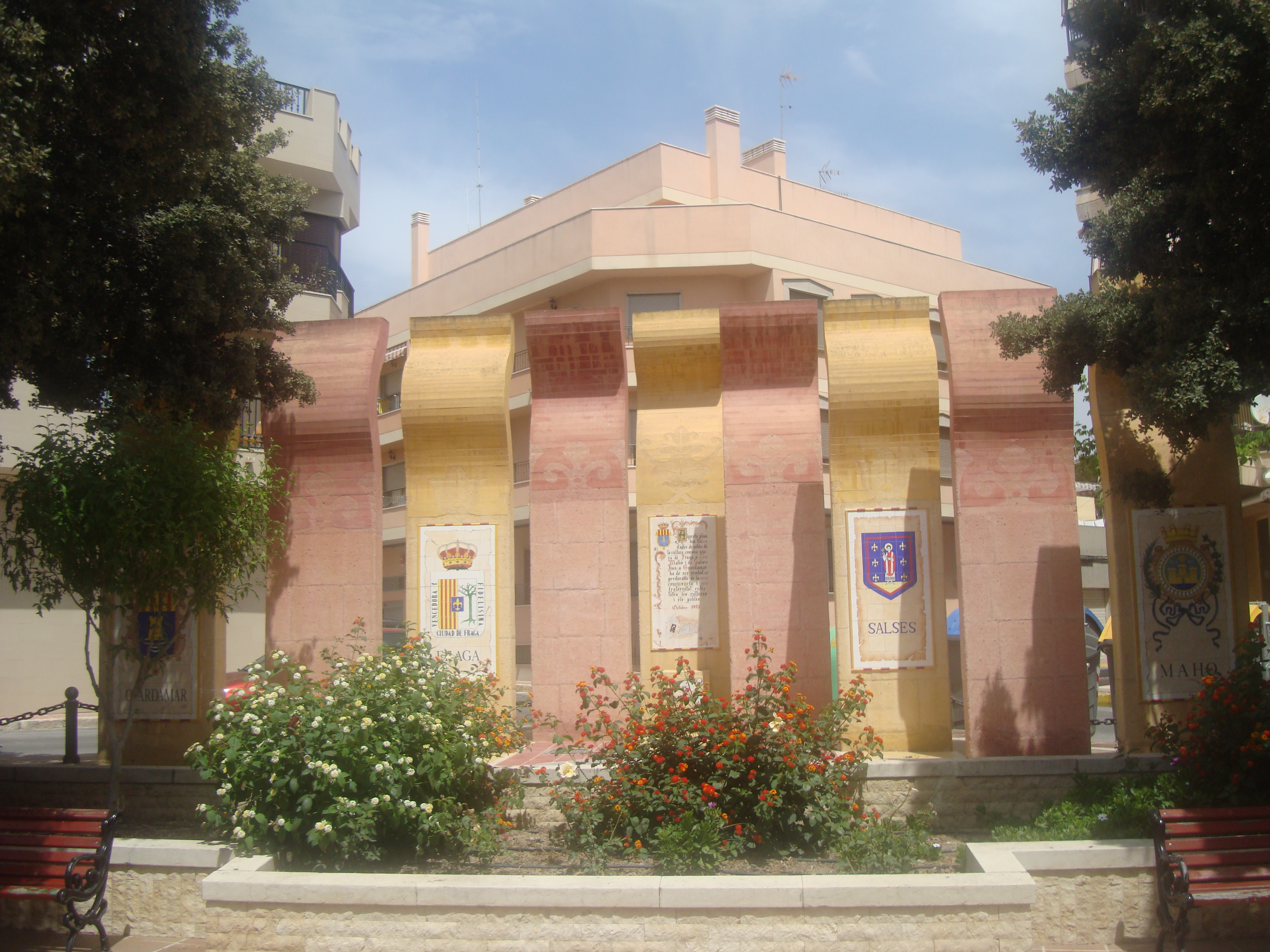 Monument of Catalan language and culture in Guardamar del Segura